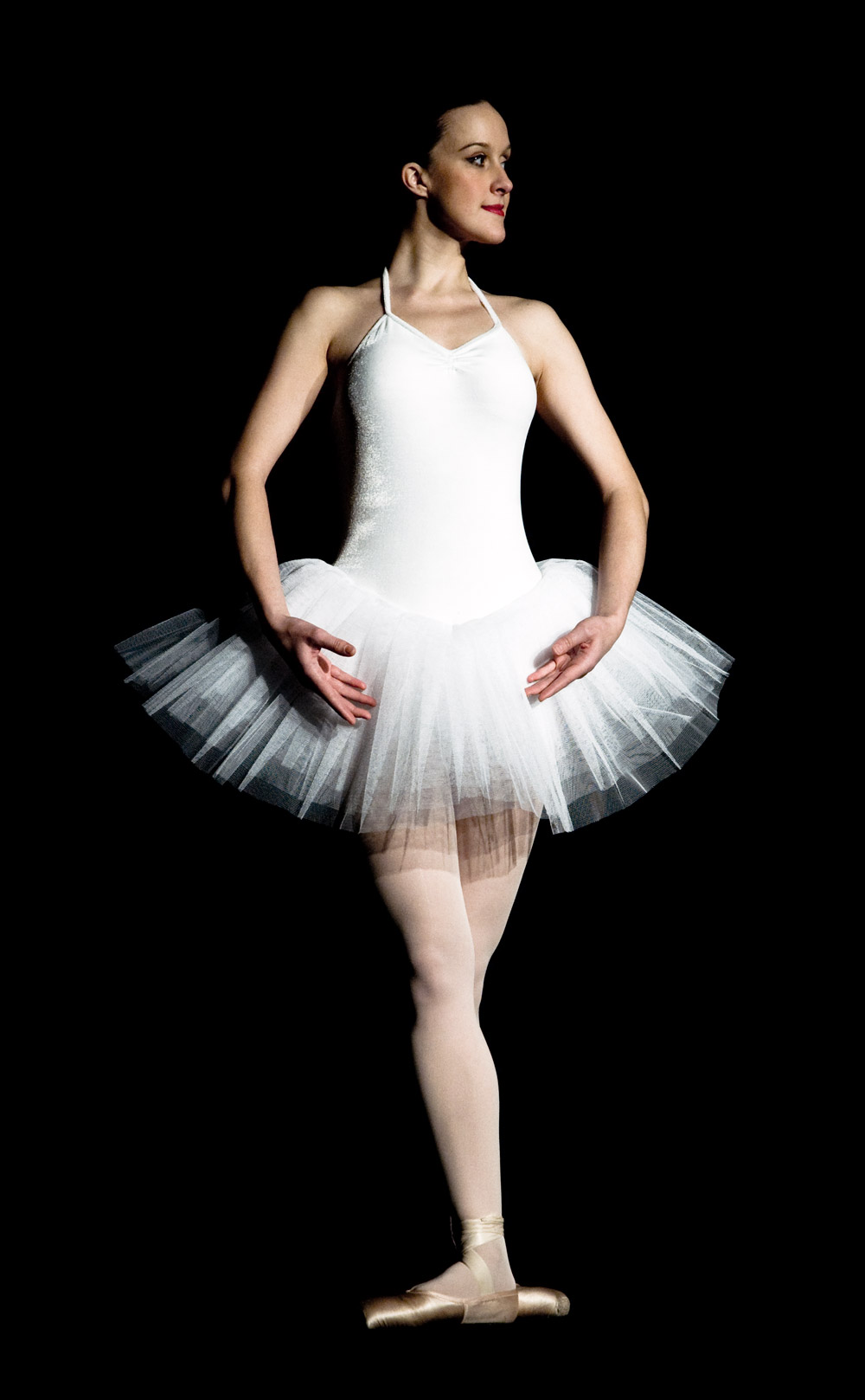 Ms. Faye Maughan standing in 3rd position at Nikon Solutions Expo 2008. cf. also ballerina-plus-snapper.